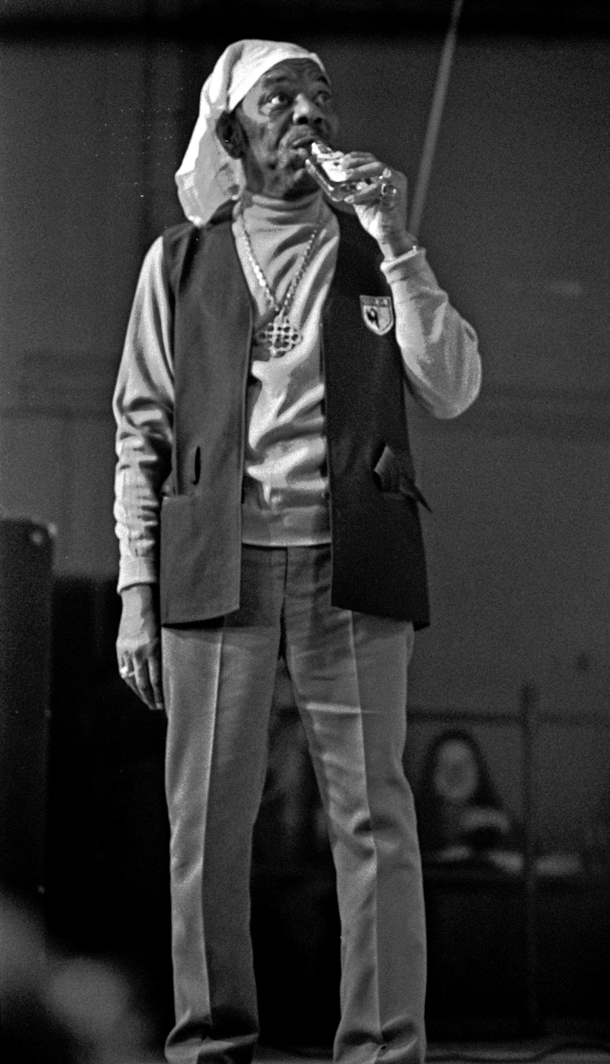 Dieser Clown hatte den Blues: Champion Jack Dupree, Hamburg, 1973